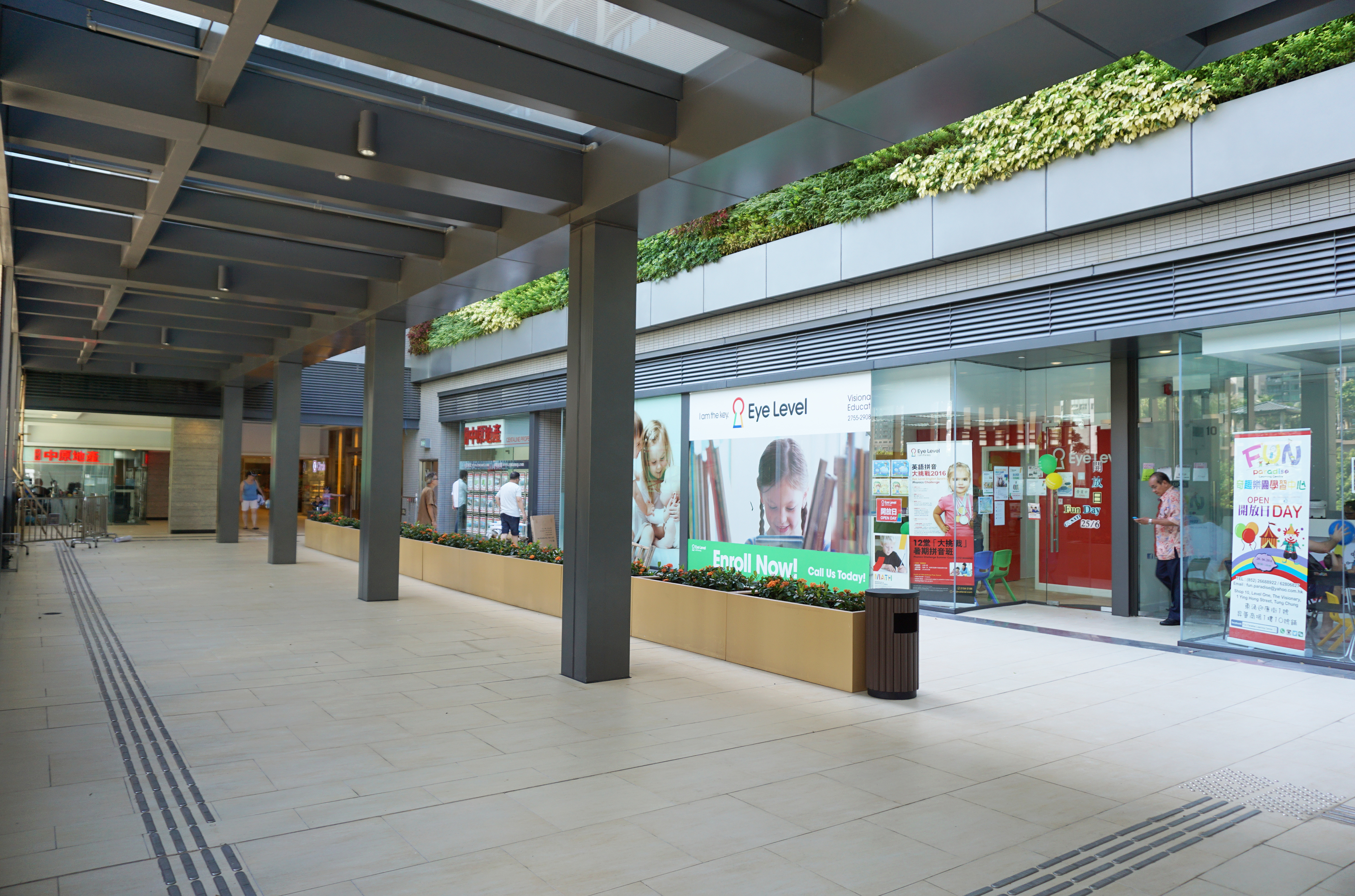 The Visionary in Tung Chung, Hong Kong.